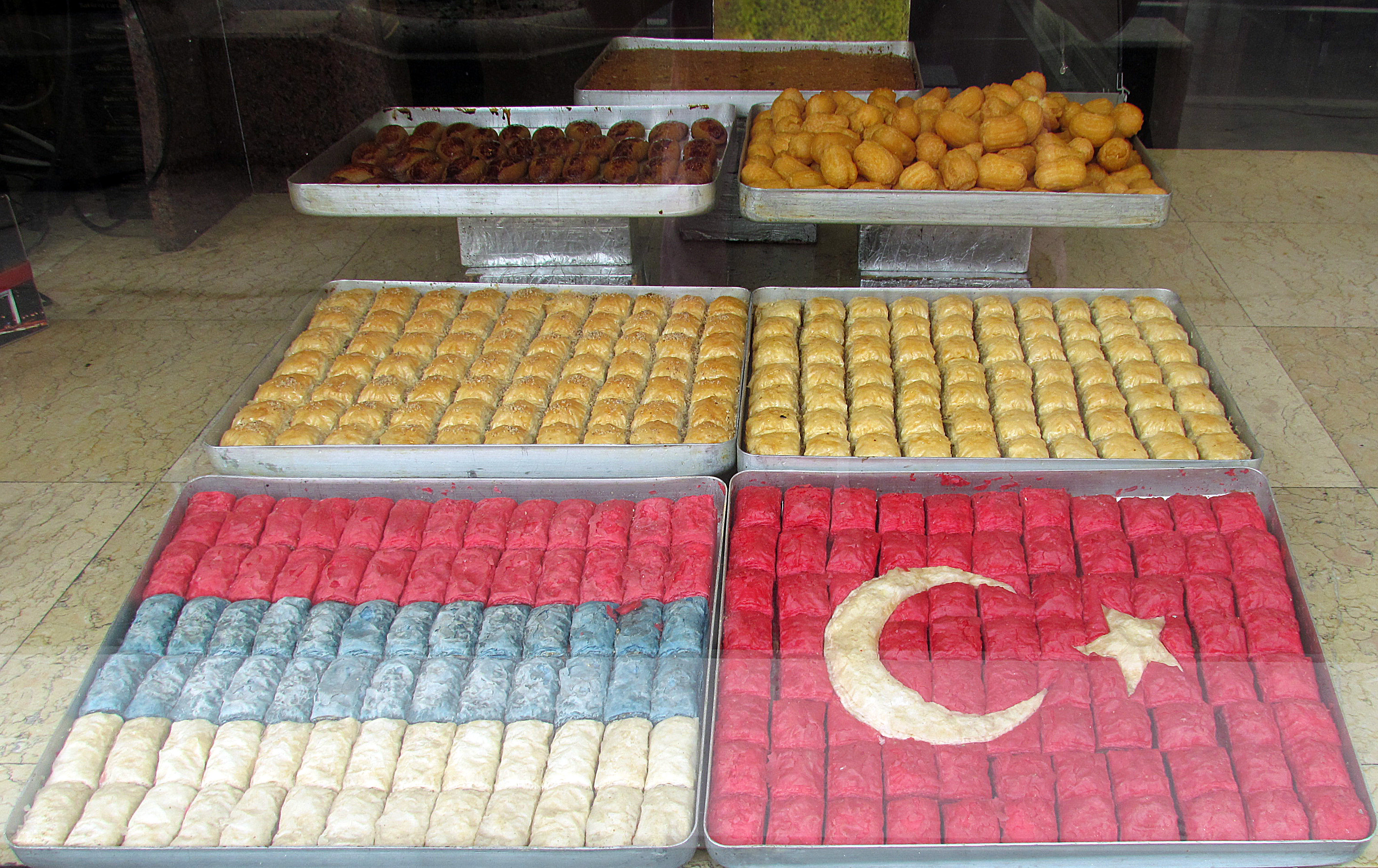 Turkish baklava in pastry shop Belgrade